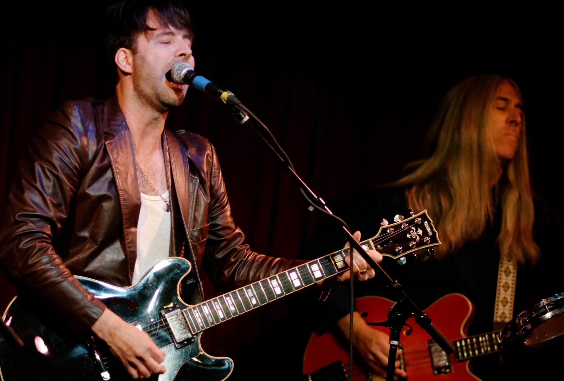 AM & Shawn Lee performing live at the Hotel Cafe in Los Angeles, CA on September 25th, 2013.